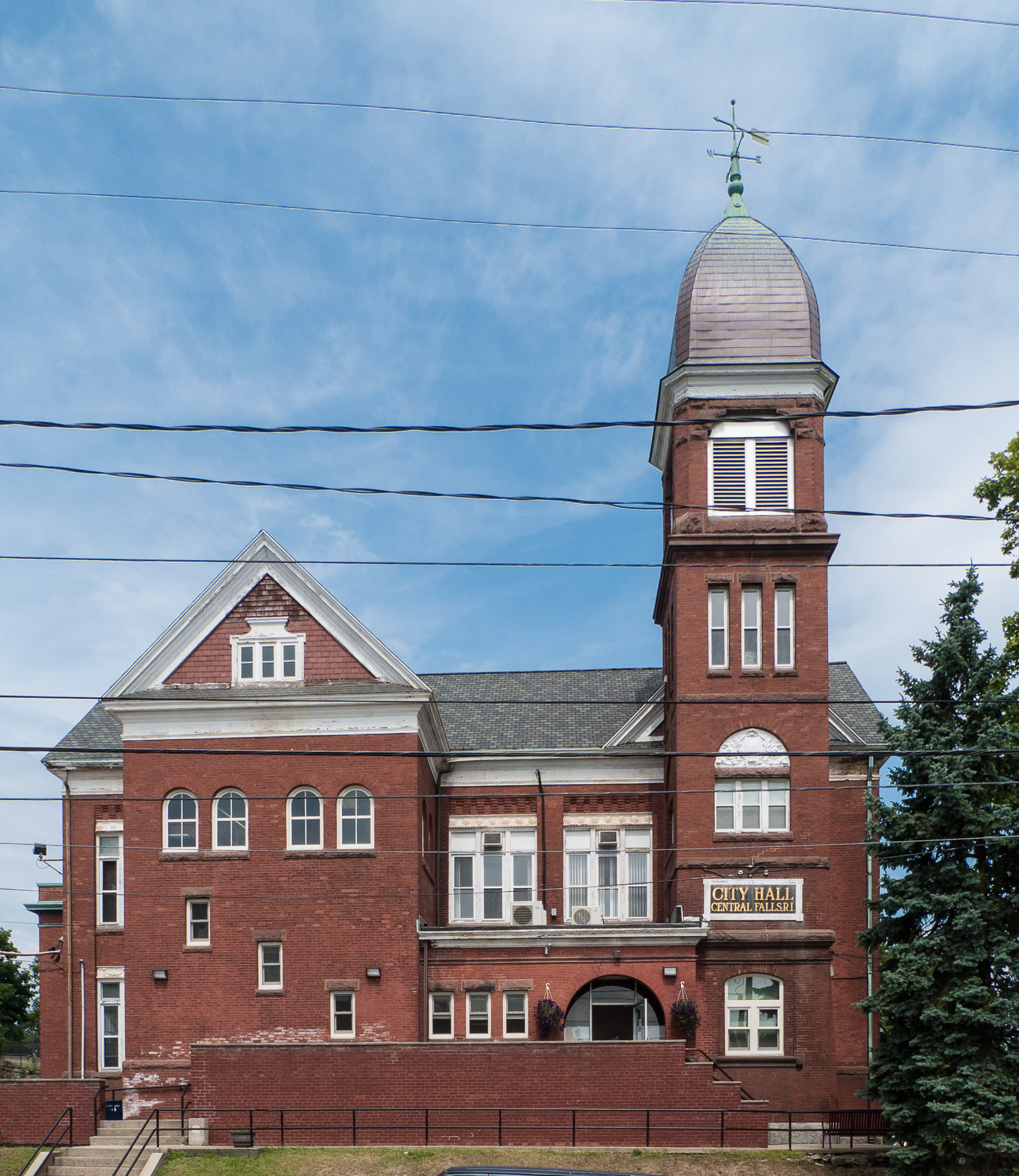 Central Falls City Hall is part of the South Central Falls Historic District, Rhode Island.